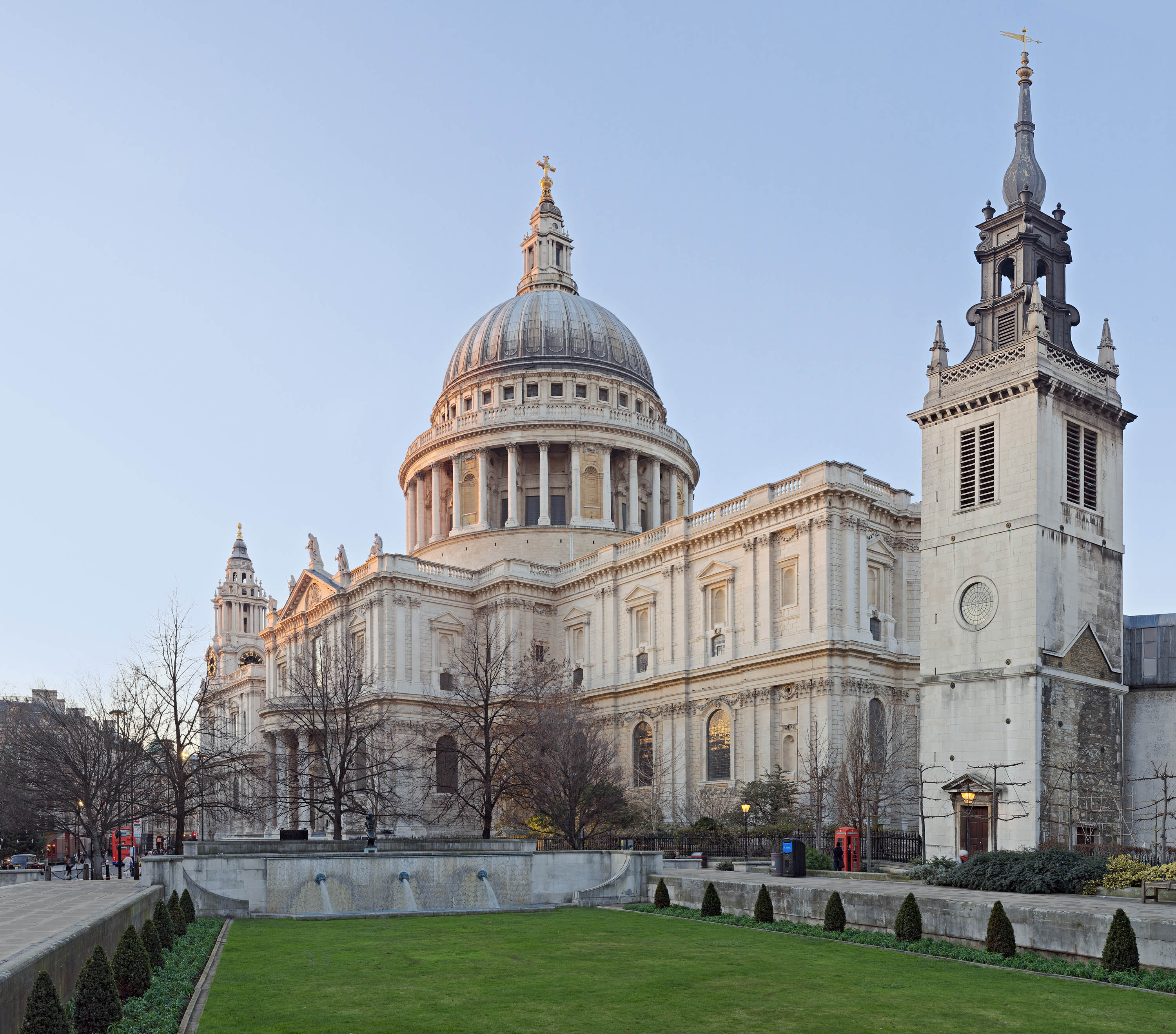 St Paul's Cathedral and the remaining tower of St Augustine, Watling Street, which was otherwise destroyed during World War 2.llego un dia misterioso rulos y jugi escondidas This is a HDR panoramic stitch, comprising 60 frames (3 exposures * 20 segments). NOTE: This version is of low resolution and has other problems. It has been uploaded for the purpose of discussion. Use the original in preference.